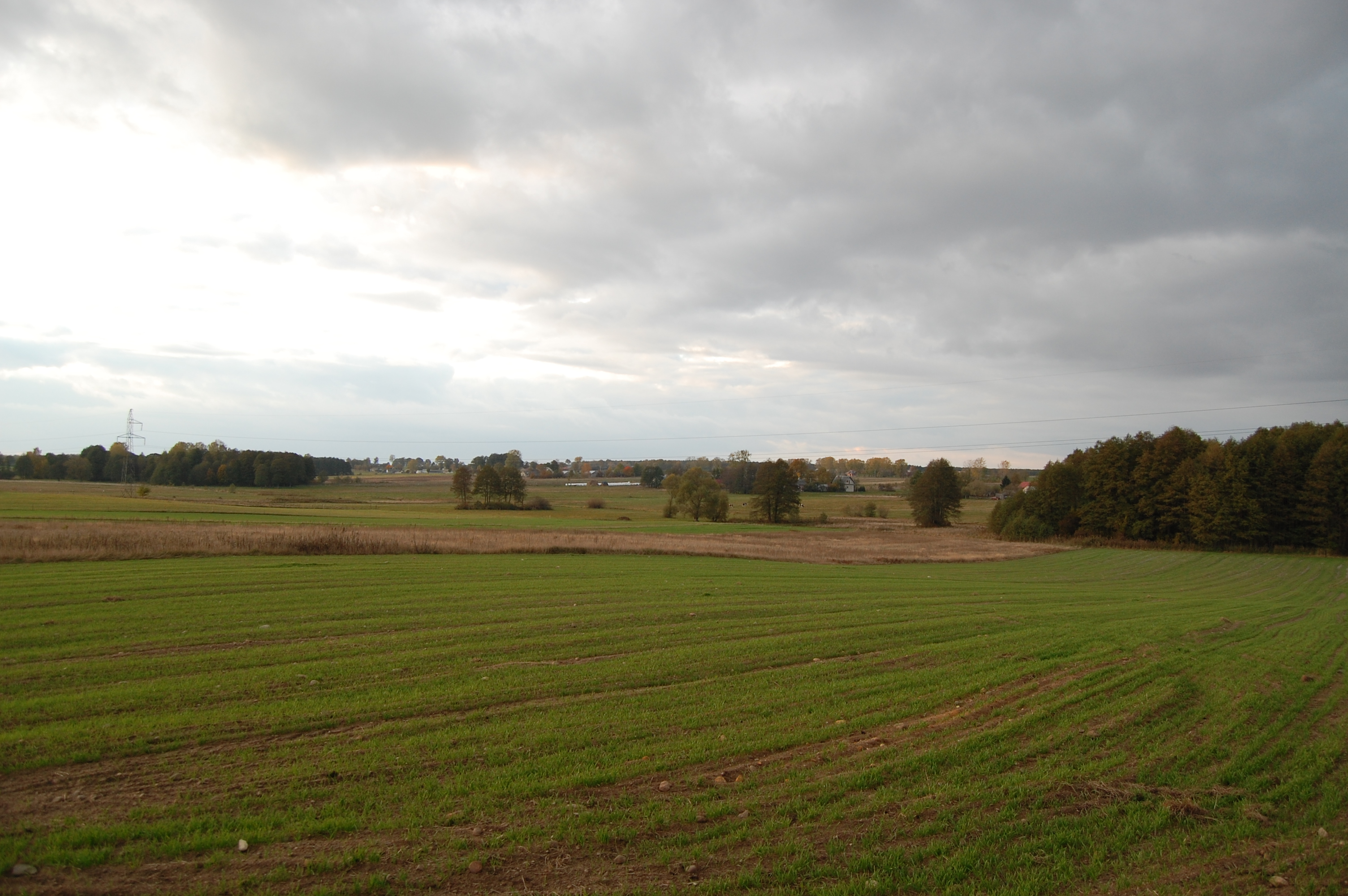 Landscape of Żelechów High Plain, Poland